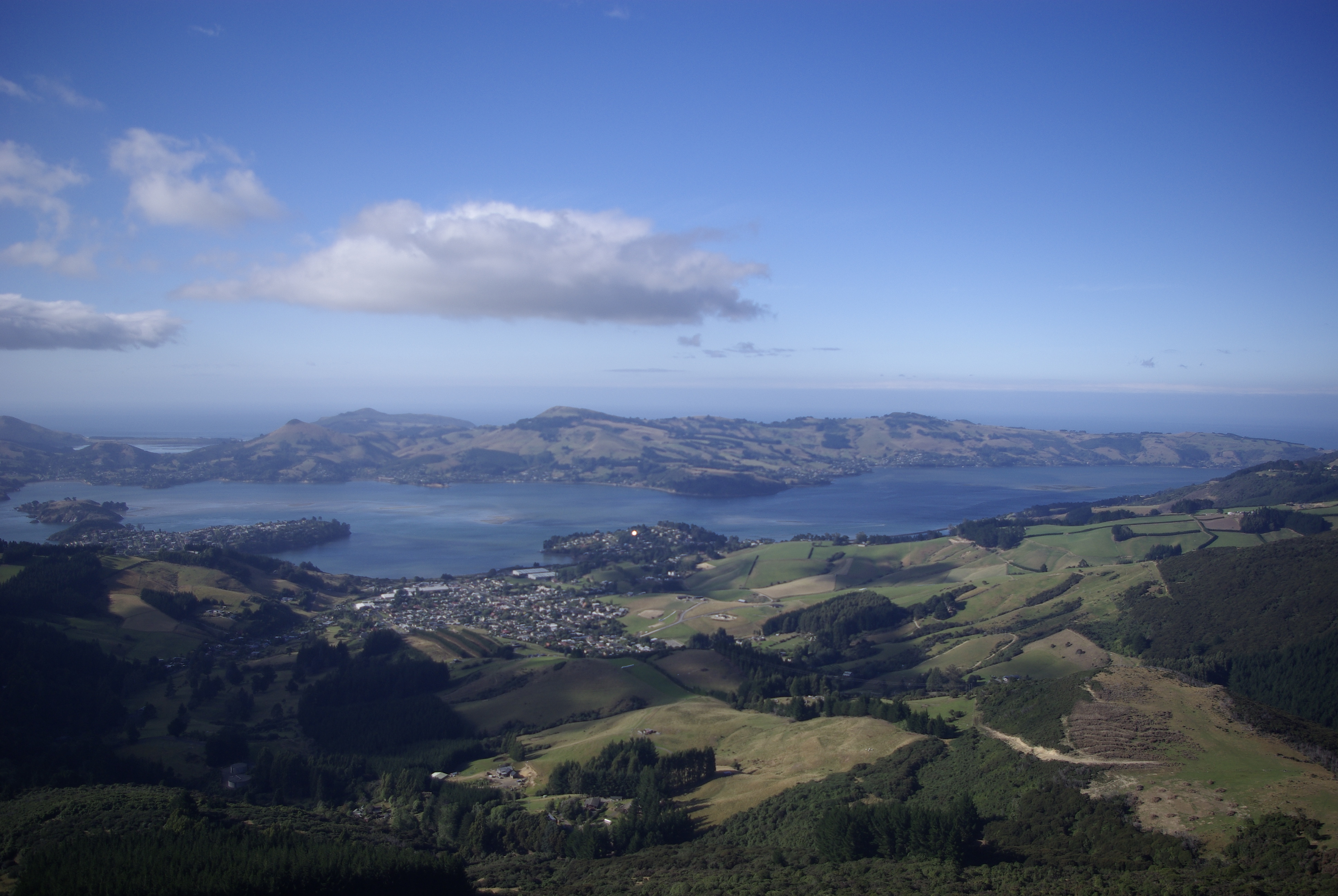 From Mt Cutten: Sawyers Bay and Port Chalmers, then across Otago Harbour to Otago Peninsula